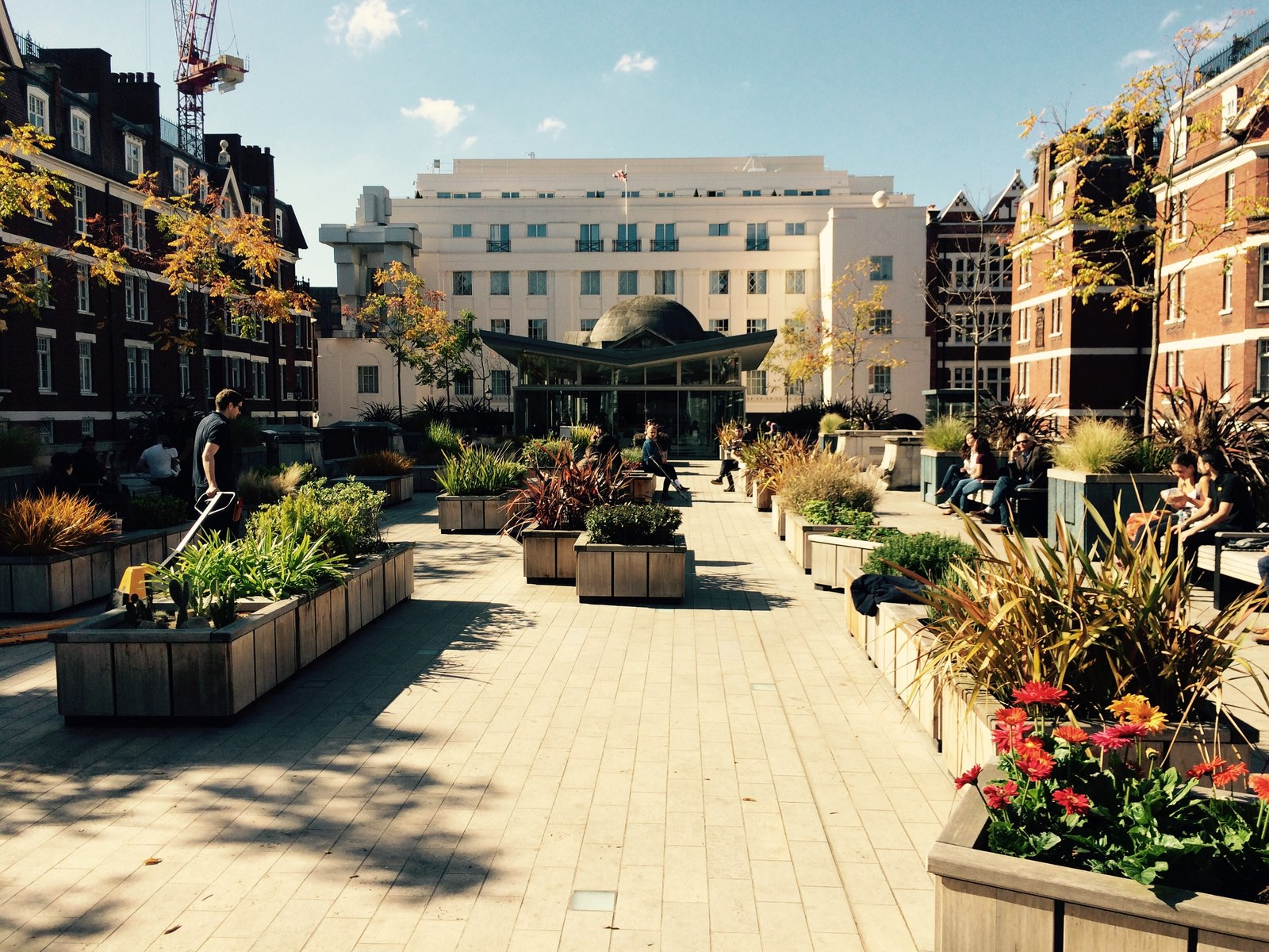 Brown Hart Gardens. A public garden on top of an electricity substation. The white building behind the Garden Café is the Beaumont Hotel.